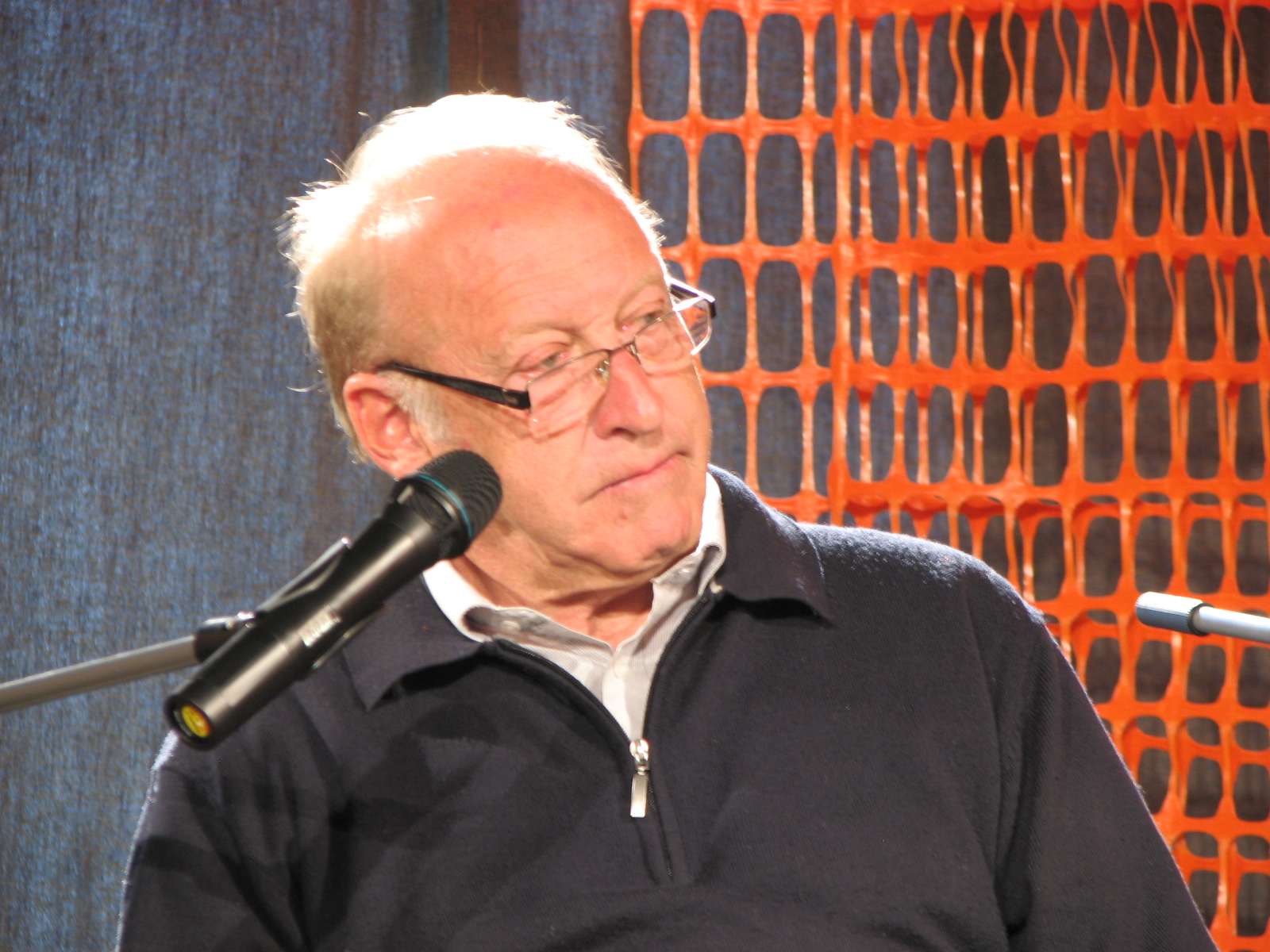 Daniel Leuwers performing in literature festival HeadRead